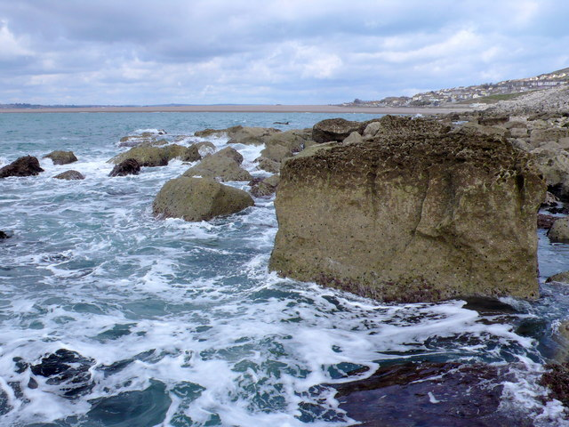 Tar Rocks, Portland at low tide This photo was taken at 12.45 am when the tide was at its lowest state. The large rock in the foreground is one of the few Tar Rocks that are visible at high tide. This view is looking north along the line of the grid line towards Chesil beach and Fortuneswell. Some of the smaller rocks that are further west (to the left) are actually in SY6772 and are only exposed and become accessible at these low tides. The position was measured with GPS with 12 ft stated accuracy.